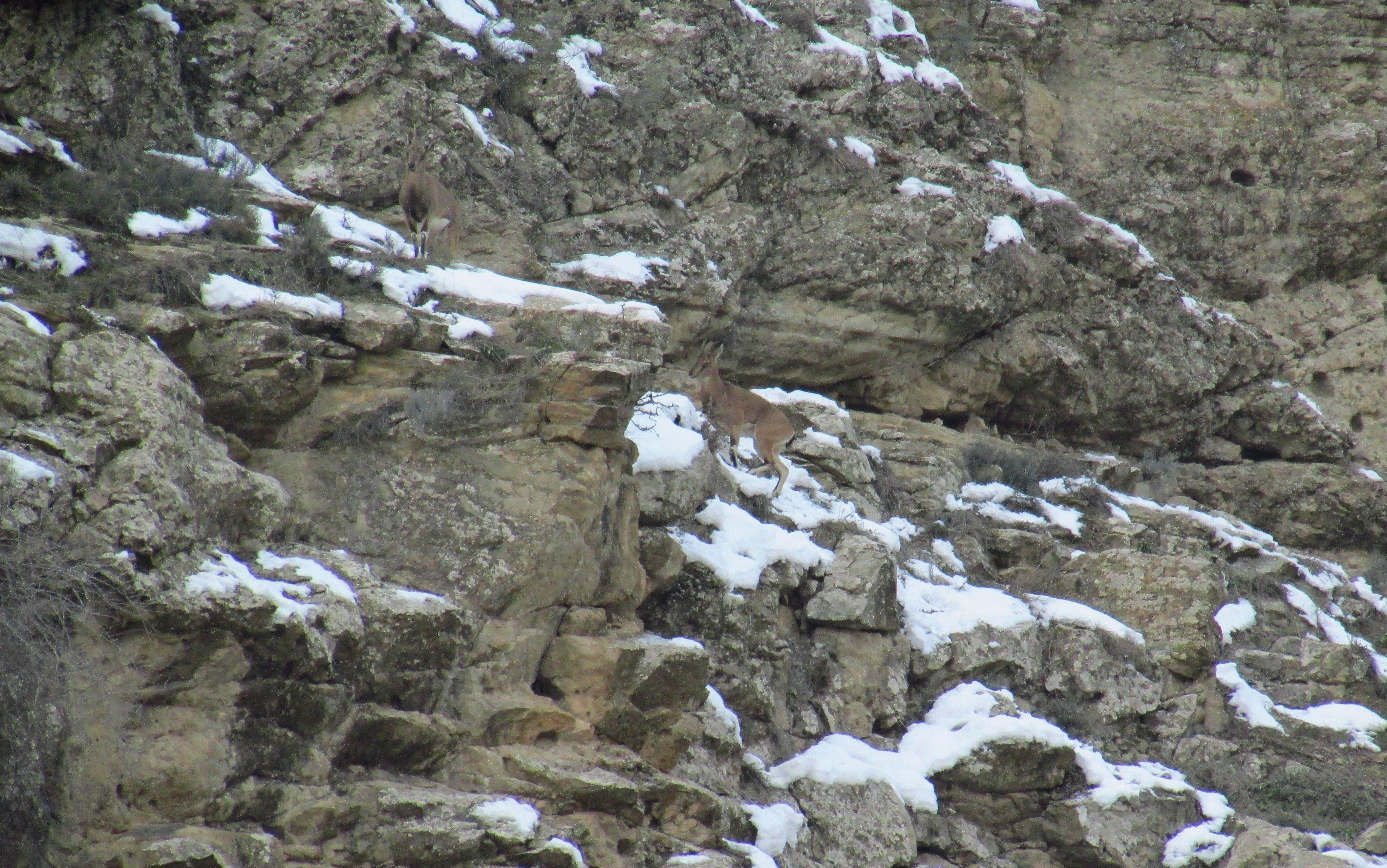 This photo of wild goats near Emarat East Azerbaijan village was taken by Ravanbakhsh Leysi.